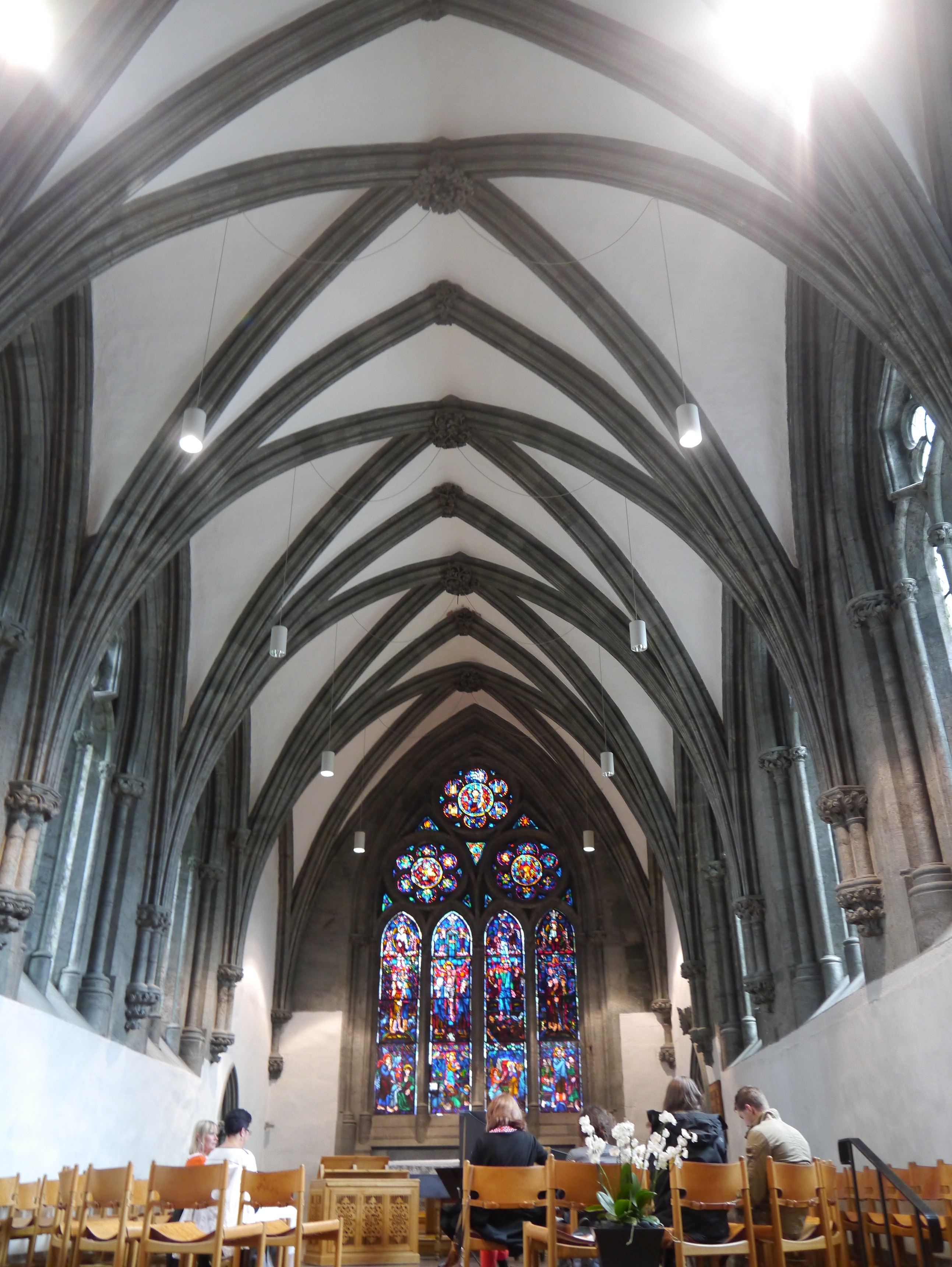 Choir of the Cathedral St. Svithun, Stavanger, Rogaland County, Southwestern Norway